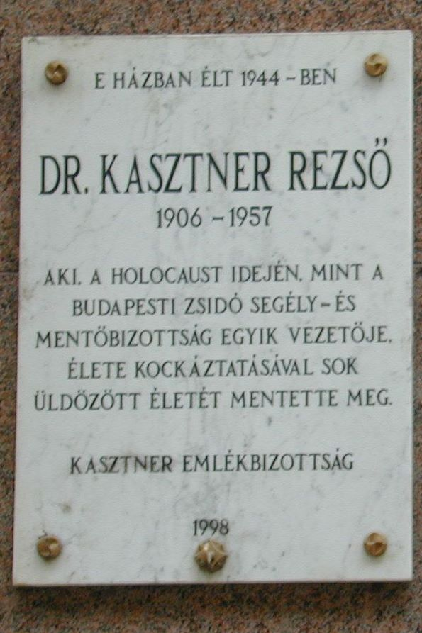 Memory stone for Kasztner in Vaci Utza in Budapest